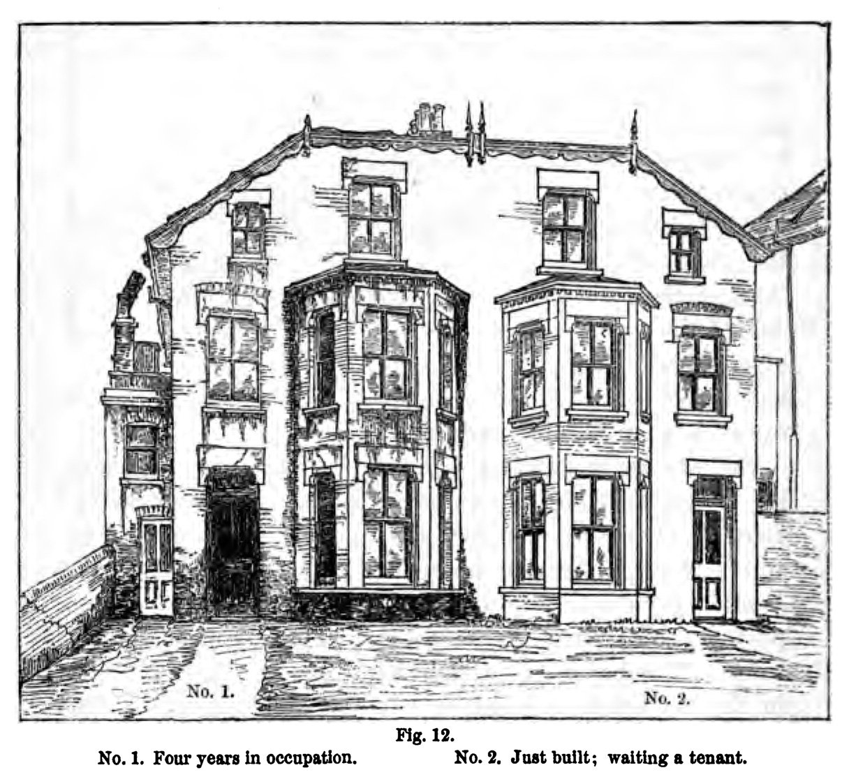 Dilapidated Victorian House in Willesden